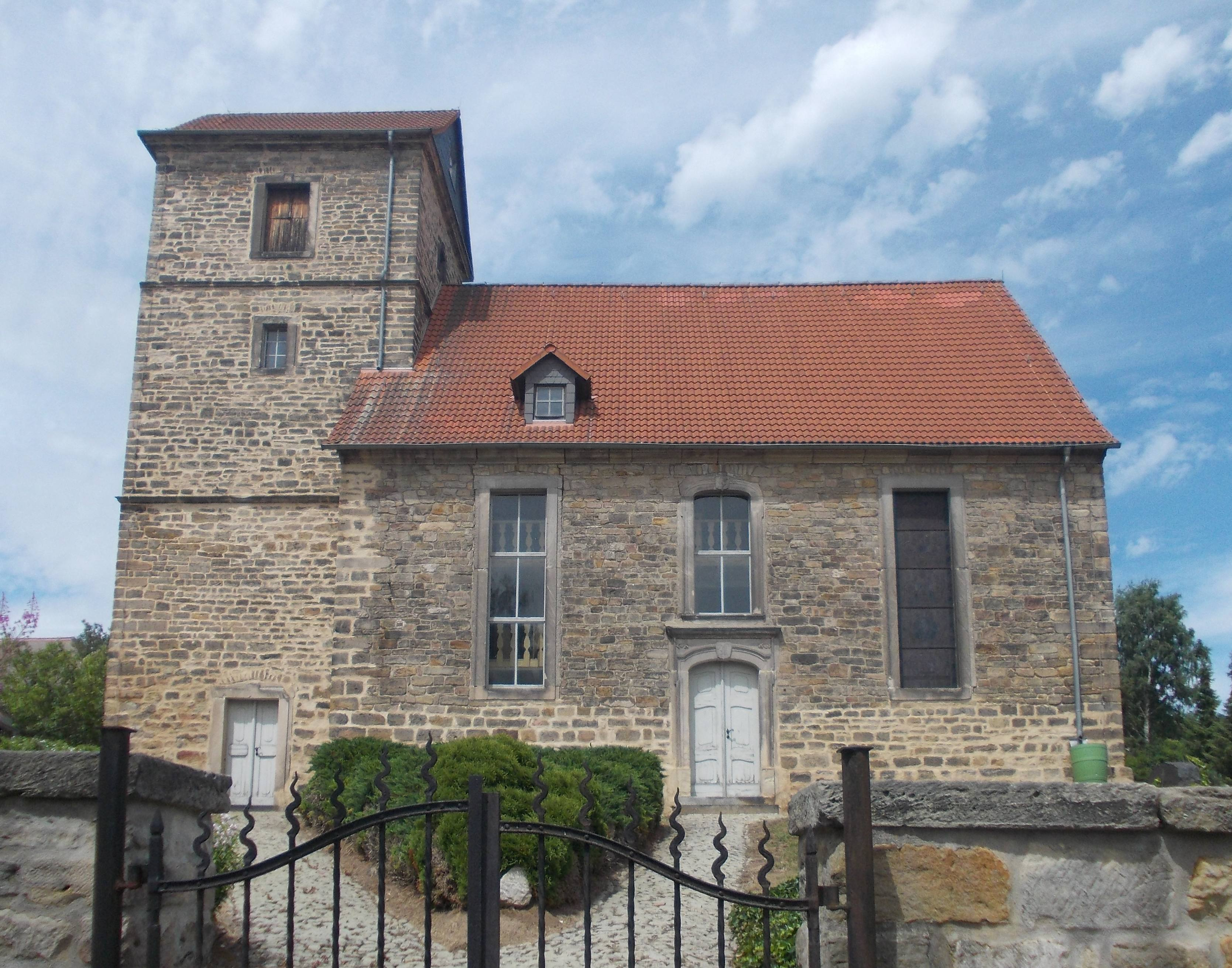 St. Nicholas' Church in Saubach (Finneland, district: Burgenlandkreis, Saxony-Anhalt)